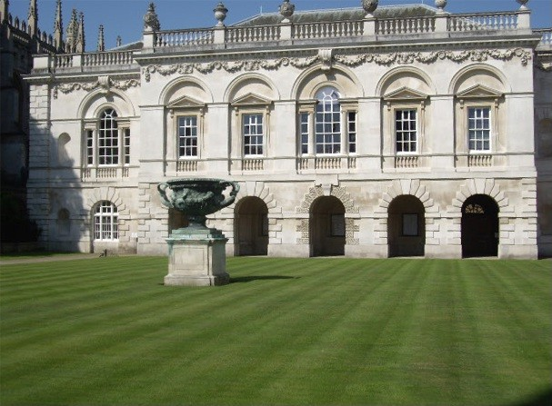 Senate House, University of Cambridge Replica of the 'Warwick Vase' on the lawn. See Warwick_Vase